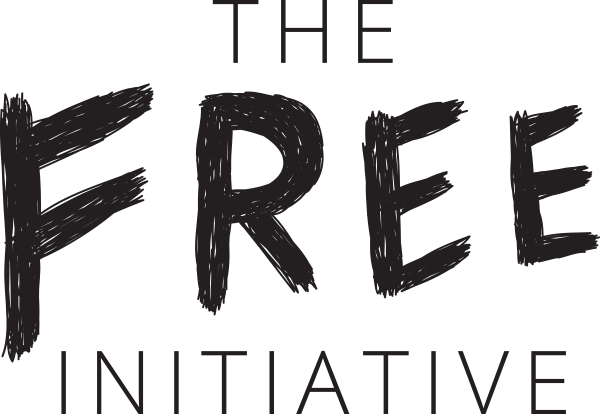 The Far-Right Extremism in Europe Initiative (The FREE Initiative) Logo